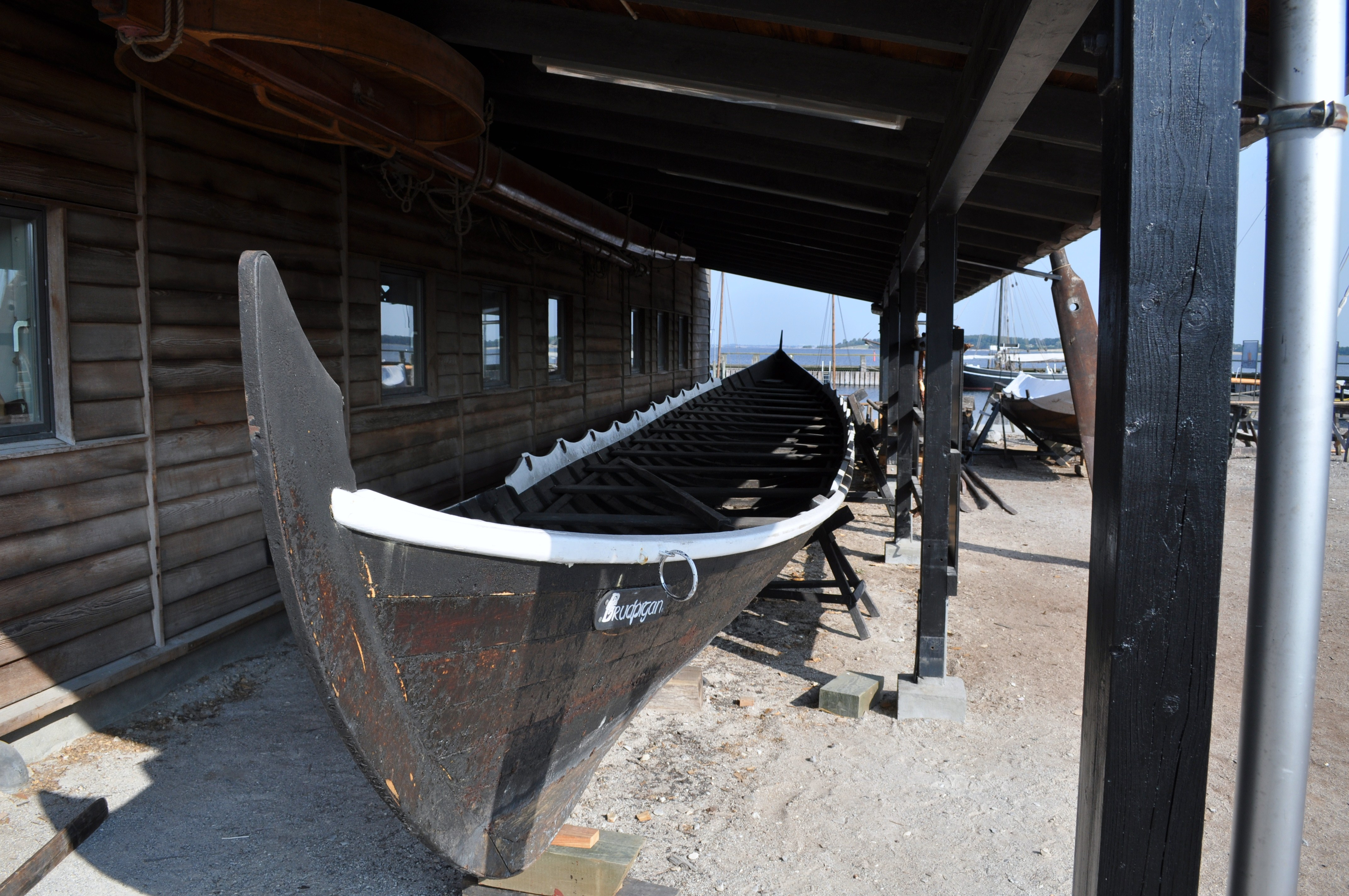 Church boat from Sweden